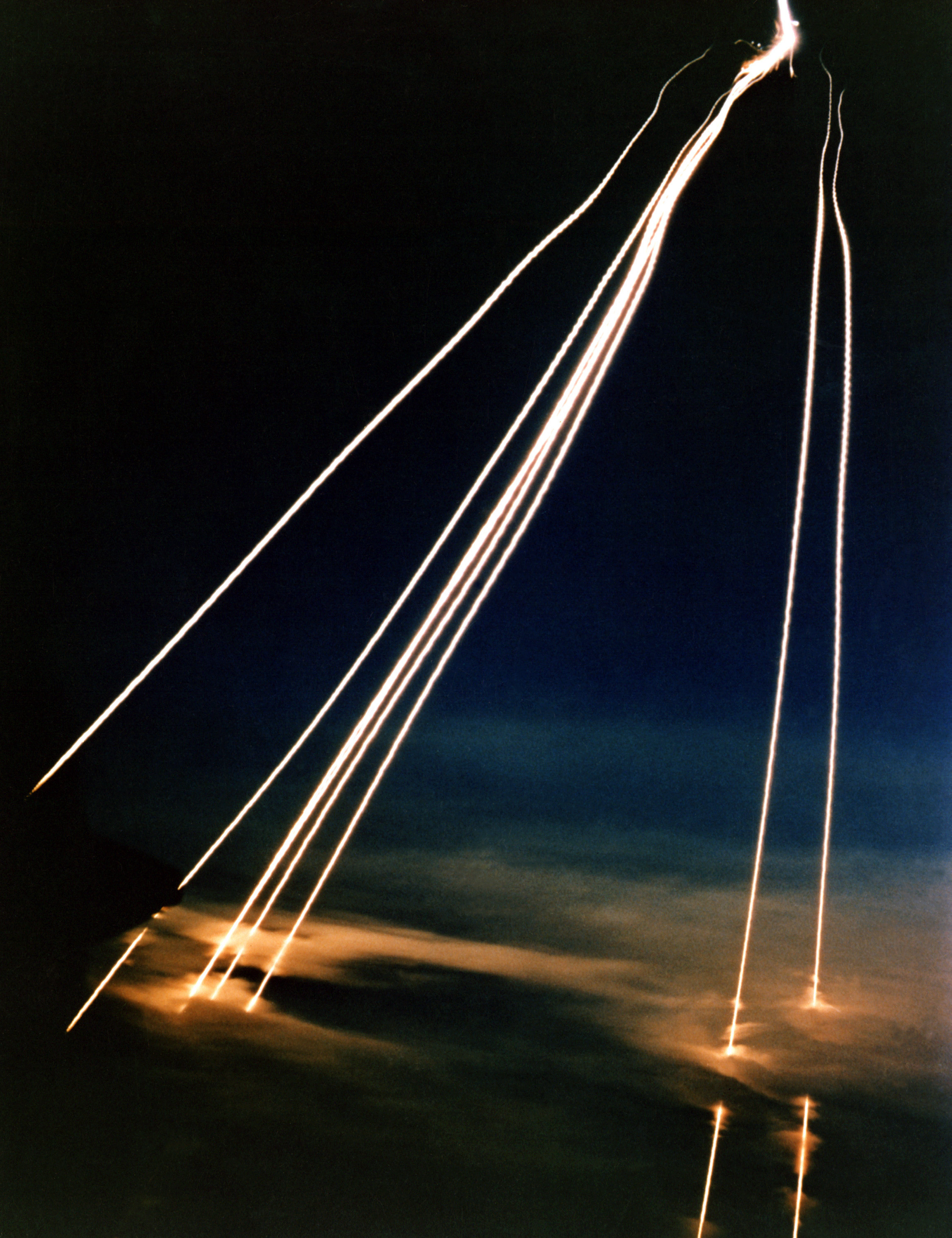 A time exposure of eight Peacekeeper (LGM-118A) intercontinental ballistic missile reentry vehicles passing through clouds while approaching an open-ocean impact zone during a flight test.